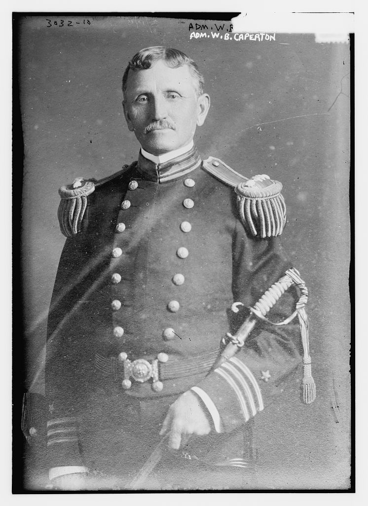 Adm. W.B. Caperton (LOC) Bain News Service,, publisher. Adm. W. B. Caperton circa 1914 [between ca. 1910 and ca. 1915] 1 negative : glass ; 5 x 7 in. or smaller. Notes: Title from unverified data provided by the Bain News Service on the negatives or caption cards. Forms part of: George Grantham Bain Collection (Library of Congress). Format: Glass negatives. Repository: Library of Congress, Prints and Photographs Division, Washington, D.C. 20540 USA, General information about the Bain Collection is available at Persistent URL: Call Number: LC-B2- 3032-10